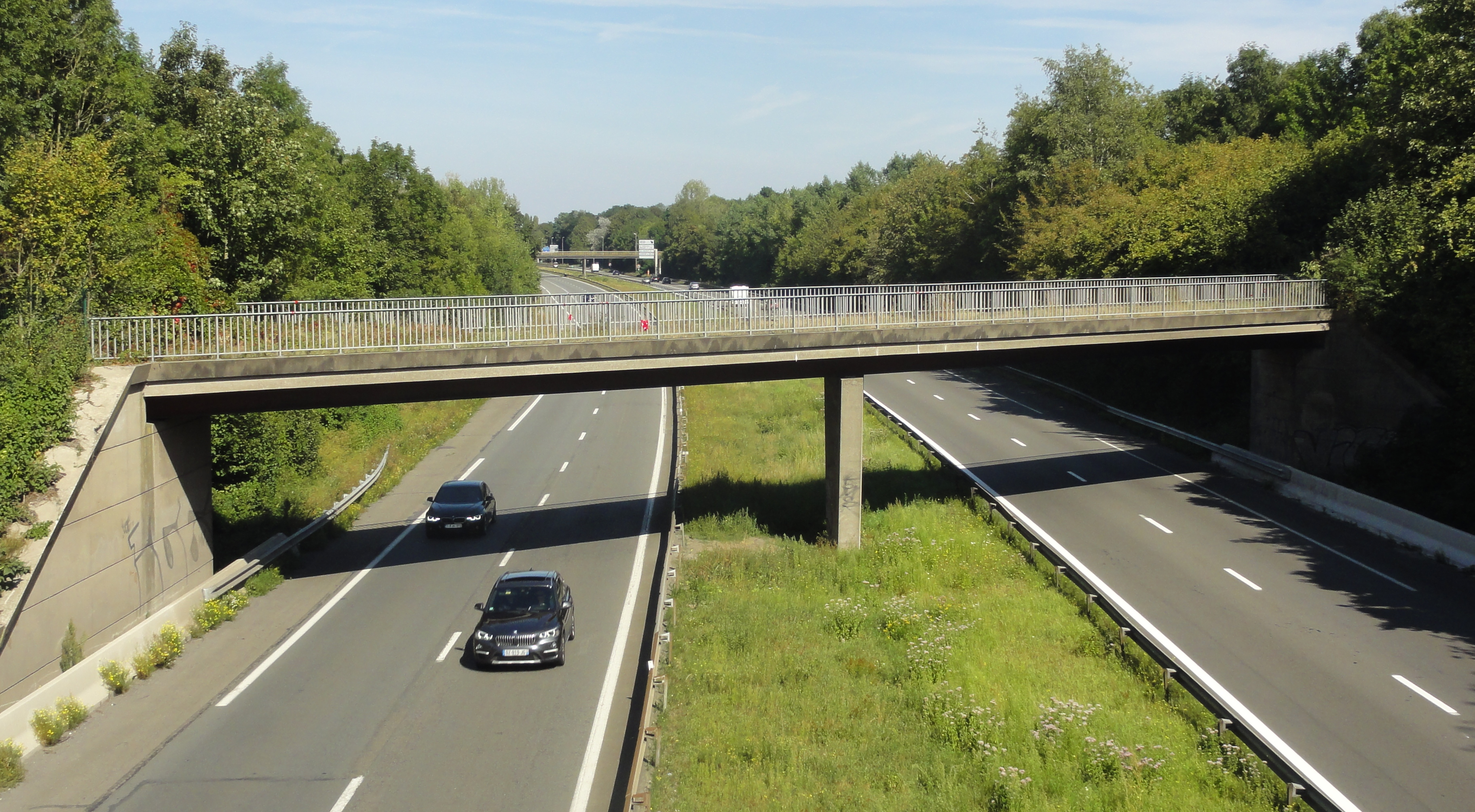 Depicted place: Saultain